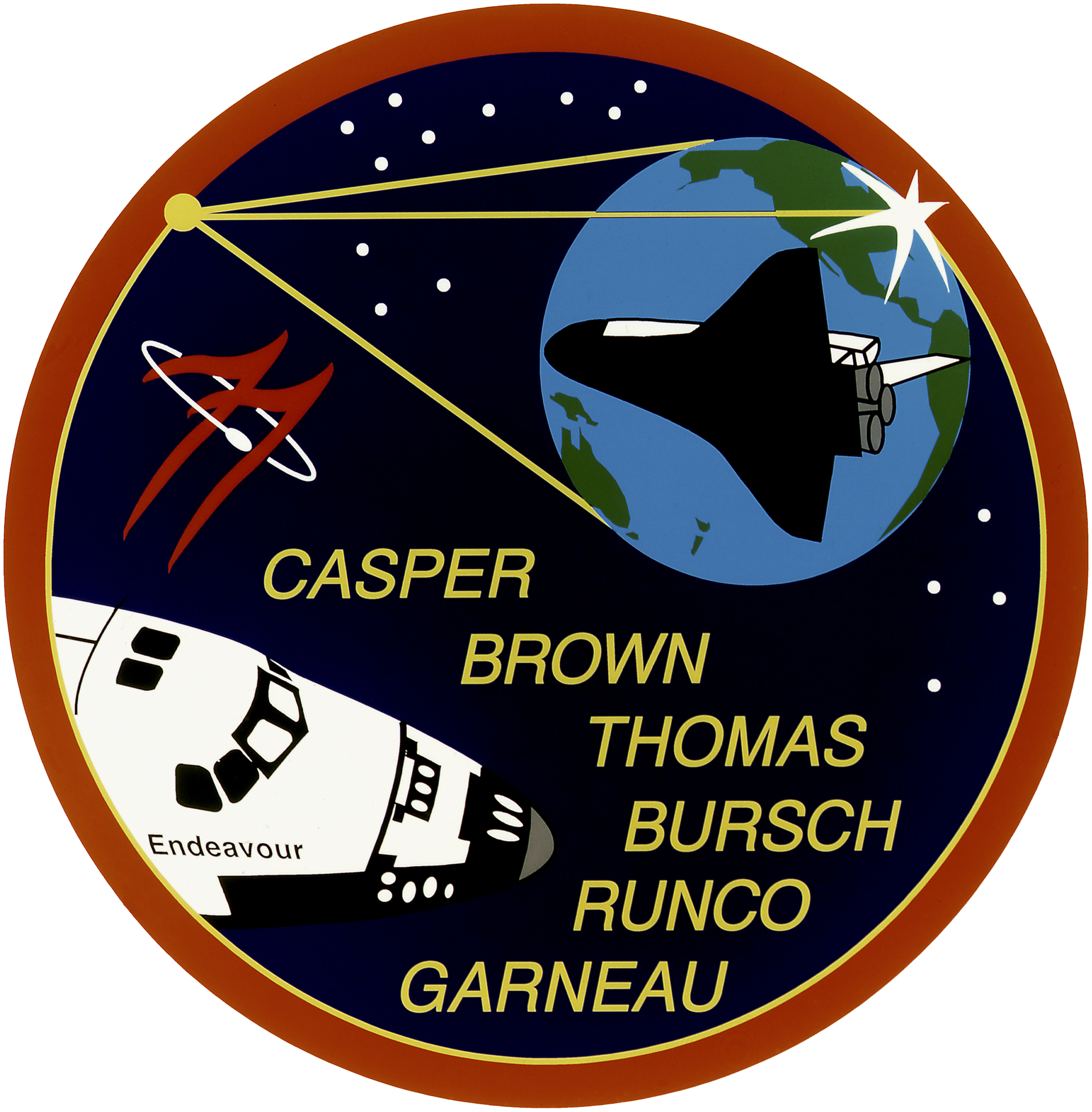 The STS-77 crew patch displays the Shuttle Endeavour in the lower left and its reflection within the tripod and concave parabolic mirror of the SPARTAN Inflatable Antenna Experiment (IAE). The center leg of the tripod also delineates the top of the Spacehab's shape, the rest of which is outlined in gold just inside the red perimeter. The Spacehab was carried in the payload bay and housed the Commercial Float Zone Furnace (CFZF). Also depicted within the confines of the IAE mirror are the mission's rendezvous operations with the Passive Aerodynamically-Stabilized Magnetically-Damped satellite (PAM/STU) appears as a bright six-pointed star-like reflection of the sun on the edge of the mirror with Endeavour in position to track it. The sunlight on the mirror's edge, which also appears as an orbital sunset, is located over Goddard Space Flight Center, the development facility for the SPARTAN/IAE and Technology Experiments Advancing Missions in Space (TEAMS) experiments. The reflection of the Earth is oriented to show the individual countries of the crew as well as the ocean which Captain Cook explored in the original Endeavour. The mission number 77 is featured as twin stylized chevrons and an orbiting satellite as adapted from NASA's logo. The stars at the top are arranged as seen in the northern sky in the vicinity of the constellation Ursa Minor. The field of 11 stars represents both the TEAMS cluster of experiments (the four antennae of GPS Attitude and Navigation Experiment (GANE), the single canister of Liquid Metal Thermal Experiment (LMTE), the three canisters of Vented Tank Resupply Experiment (VTRE), and the three canisters of PAM/STU) and the 11th flight of Endeavour. The constellation at the right shows the fourth flight of Spacehab Experiments.